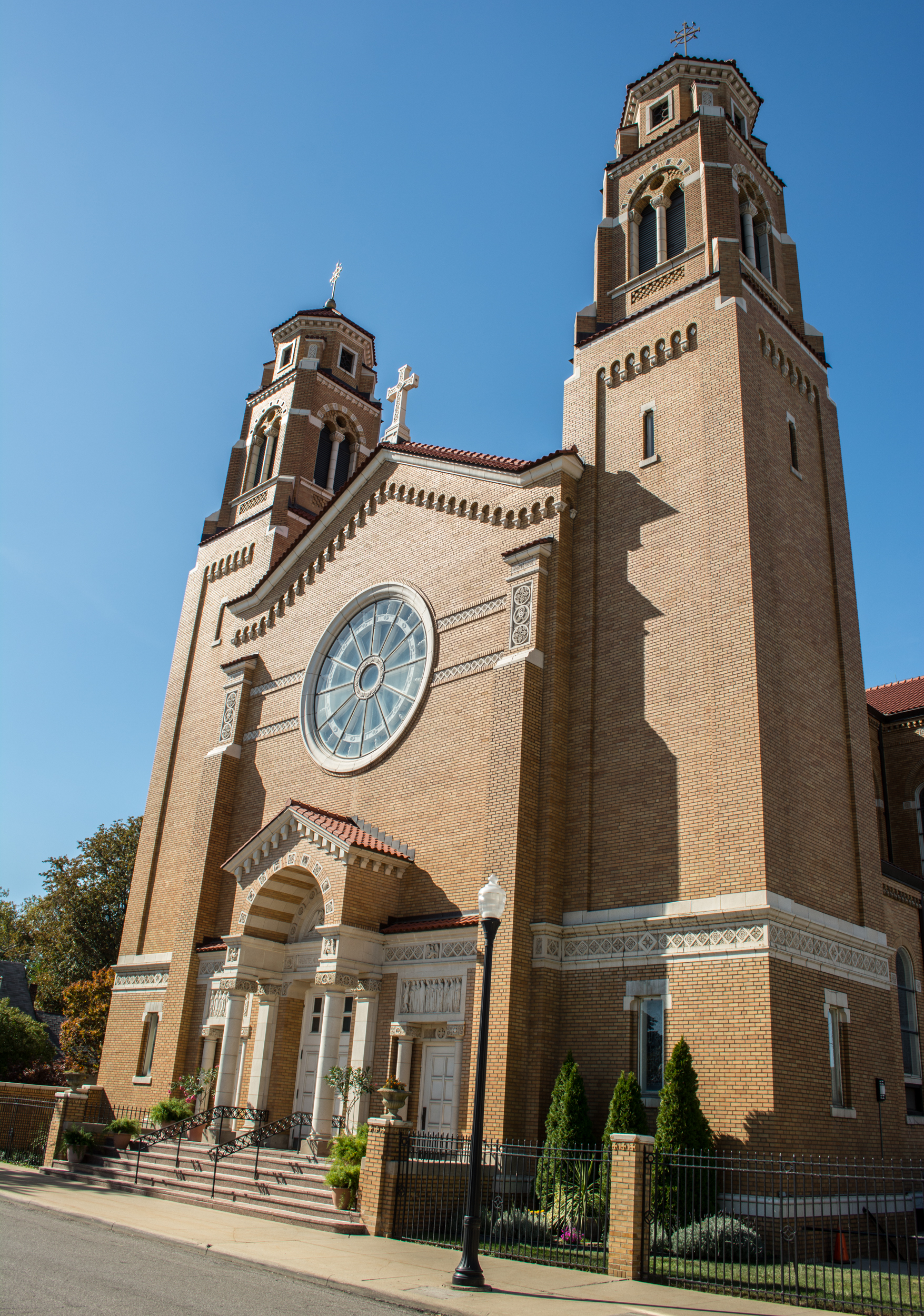 View of the front of St. Vitus Church, located at 6019 Lausche Avenue in Cleveland, Ohio, in the United States. St. Vitus Parish was organized in 1893. A $6,000 church was constructed in 1894 at 6111 Glass Avenue (now Lausche Avenue). St. Vitus School was constructed on the site in 1912. With the parish rapidly outgrowing its church, a new, vastly larger church was constructed at 6019 Lausche Avenue and completed in 1933. Designed by local architect William Jansen, this Lombard-Romanesque Revival structure of pale yellow Falston brick cost $350,000 (about $6.5 million in 2016 dollars). The church interior was renovated and conserved in February 1993 during the parish's centennial celebration.